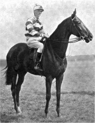 Flair, winner of the 1906 1,000 Guineas Stakes.